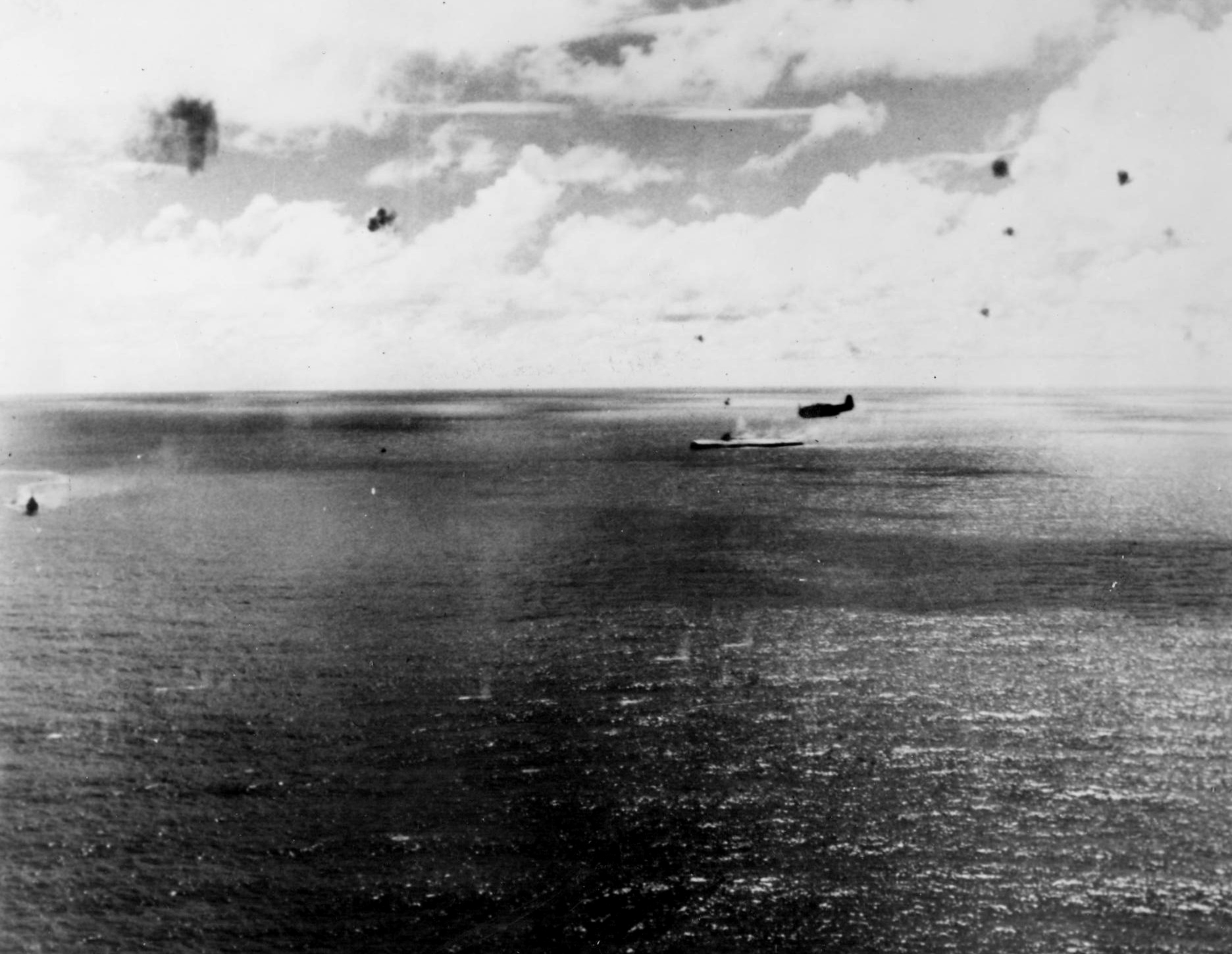 Battle off Cape Engaño, 25 October 1944: The Japanese aircraft carrier Zuikaku listing, following several hits by attacking U.S. Navy carrier aircraft on 25 October. A U.S. Navy TBM "Avenger" torpedo plane is between the ship and the camera.